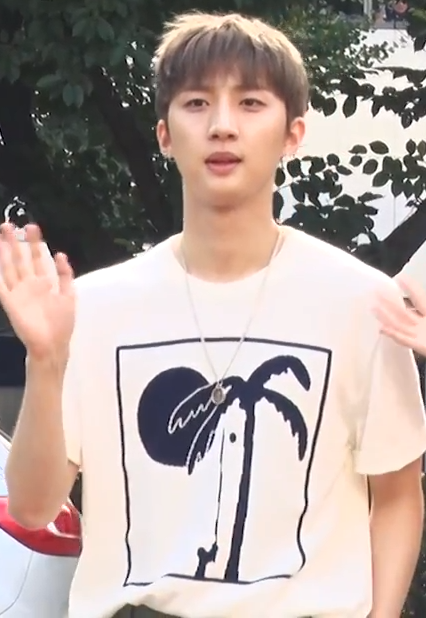 Triple H going to a Music Bank recording on July 22, 2018.